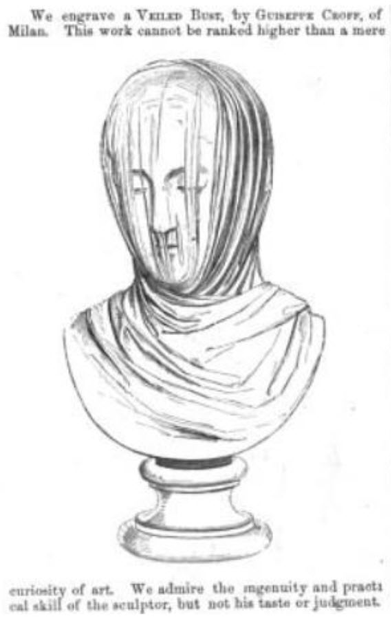 Engraved illustration of Veiled Bust exhibited at the 1853–1854 New York World’s Fair attributed to Giuseppe Croff